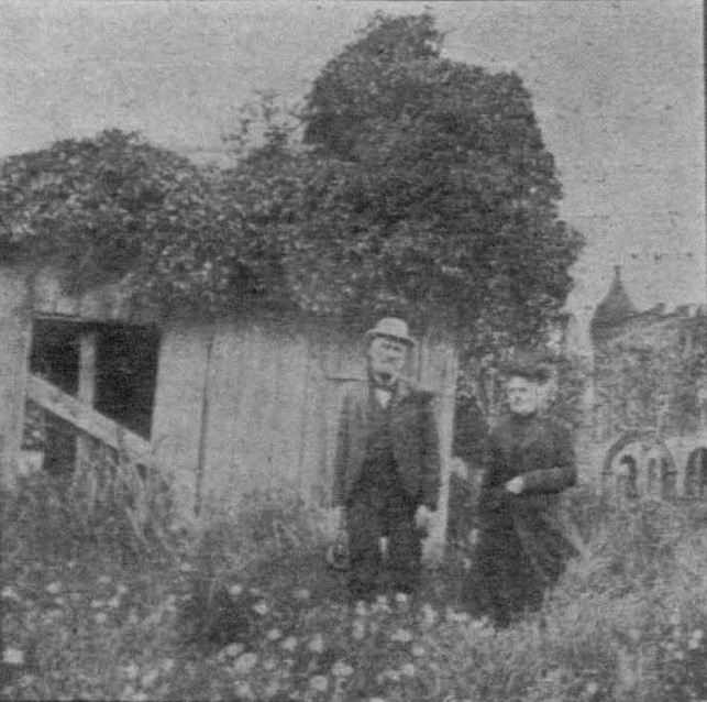 Ezra and Eliza Jane Meeker before their onetime cabin, the ivy still grows, now over a pergola in Pioneer Park, Puyallup, WA.